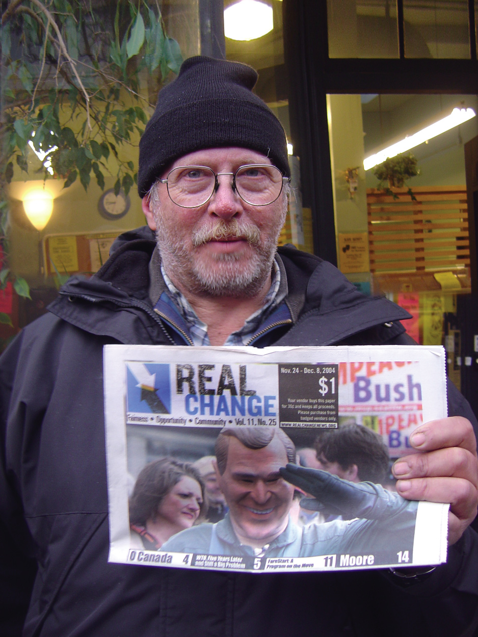 Robert of Real Change Belltown Messenger 14 - December 2004